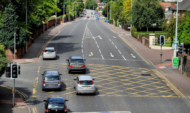 Box Junction, Belfast